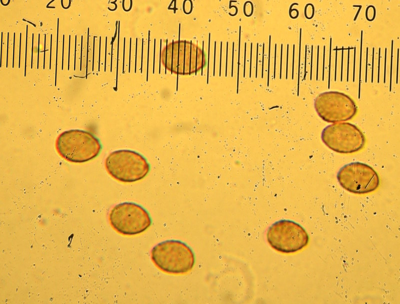 Cortinarius croceus (Schaeff.) Gray Image location: Bon Tempe Reservoir, Marin Co., California, USA The spores on these were approx. 6.5-7.7 X 5.0-5.8 microns and somewhat rough. They were growing near a pine and the overall coloring had more yellow than red so perhaps Cortinarius croceus is a reasonable guess. Recognized by sight For more information about this, see the observation page at Mushroom Observer.